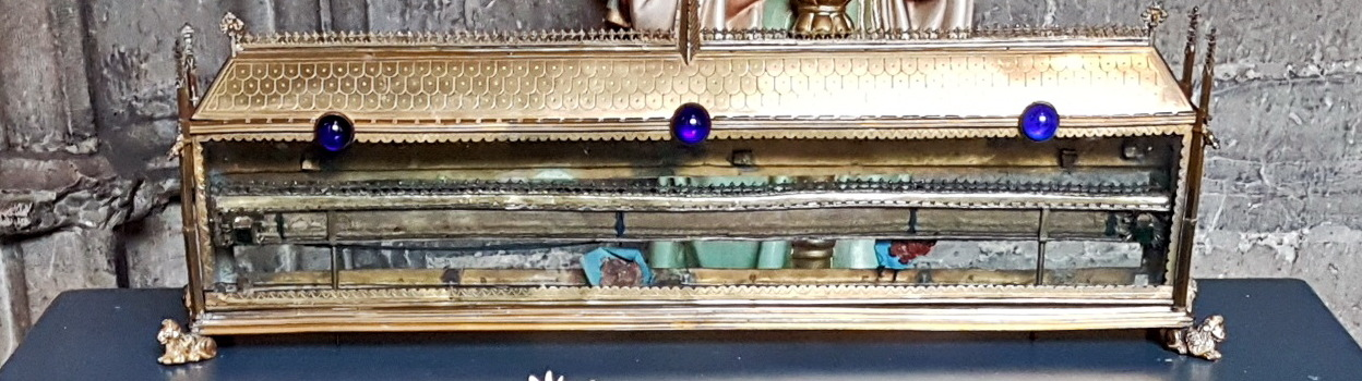 Display of reliquaries in the cloisters of the Basilica of Our Lady in Maastricht, Netherlands. The objects from the church's treasury are shown here in preparation of the veneration of the relics in the church on Saturday 2 June. This is part of the Heiligdomsvaart ("relics pilgrimage") celebrations, a religious and historic event that takes place once in seven years and dates back to the Middle Ages. This 19th-century reliquary contains a smaller 14th-century reliquary with the girdle of the Virgin Mary. As with many of the church's treasures, the larger part of this reliquary was melted down during the French occupation (1794-1814) in order to pay for war taxes.